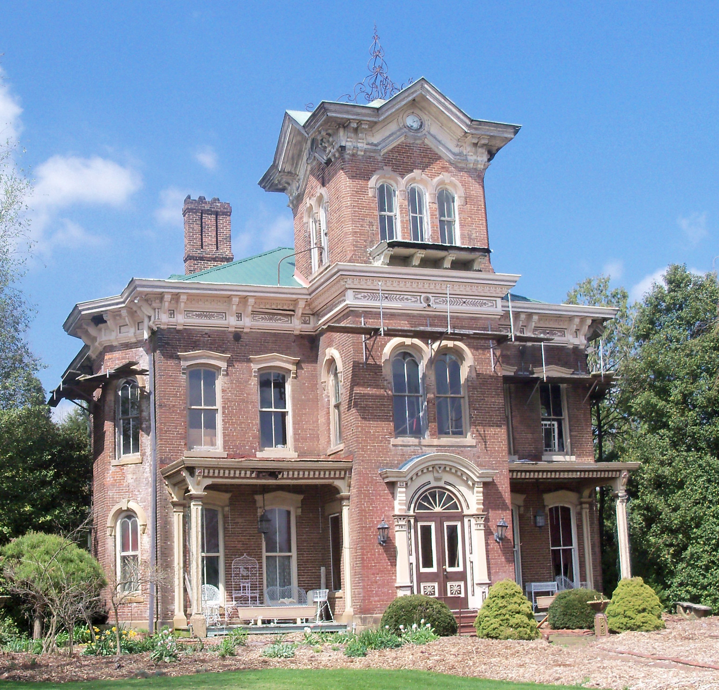 This home is in a place between Newcomerstown, Ohio and West Lafayette, Ohio called Shady Bend.